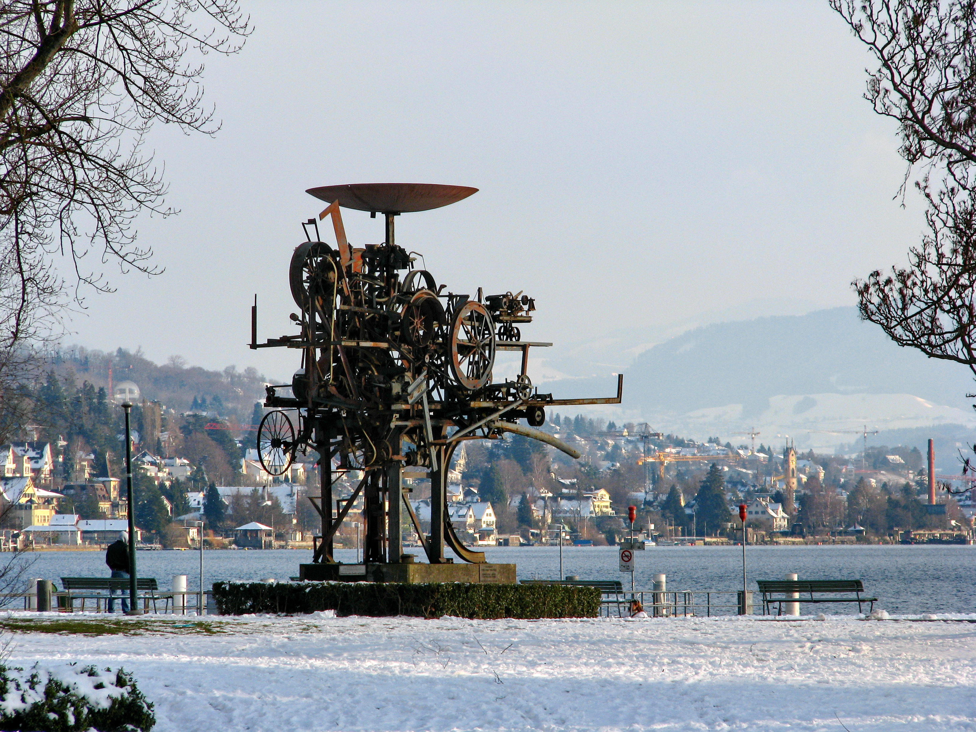 Heureka sculpture by Jean Tinguely at Zürichhorn in Zürich-Seefeld (Switzerland)